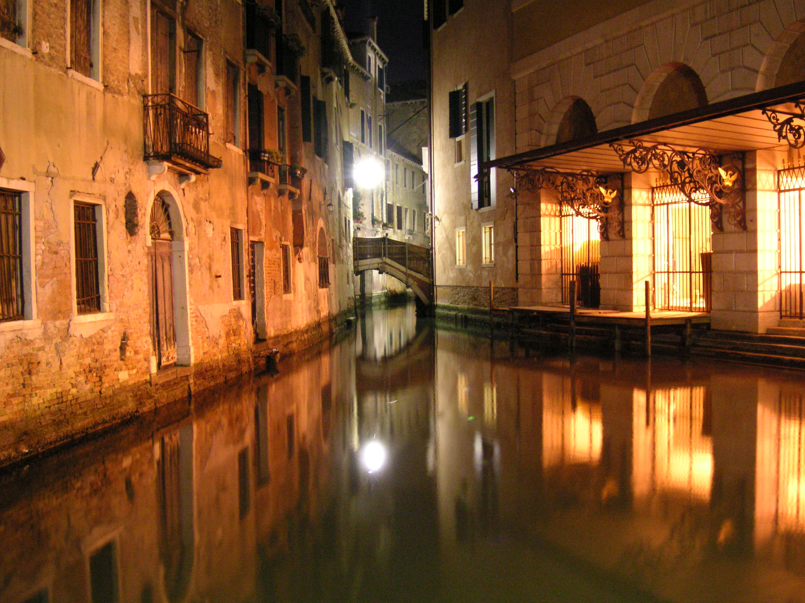 Teatro La Fenice in Venice, Italy